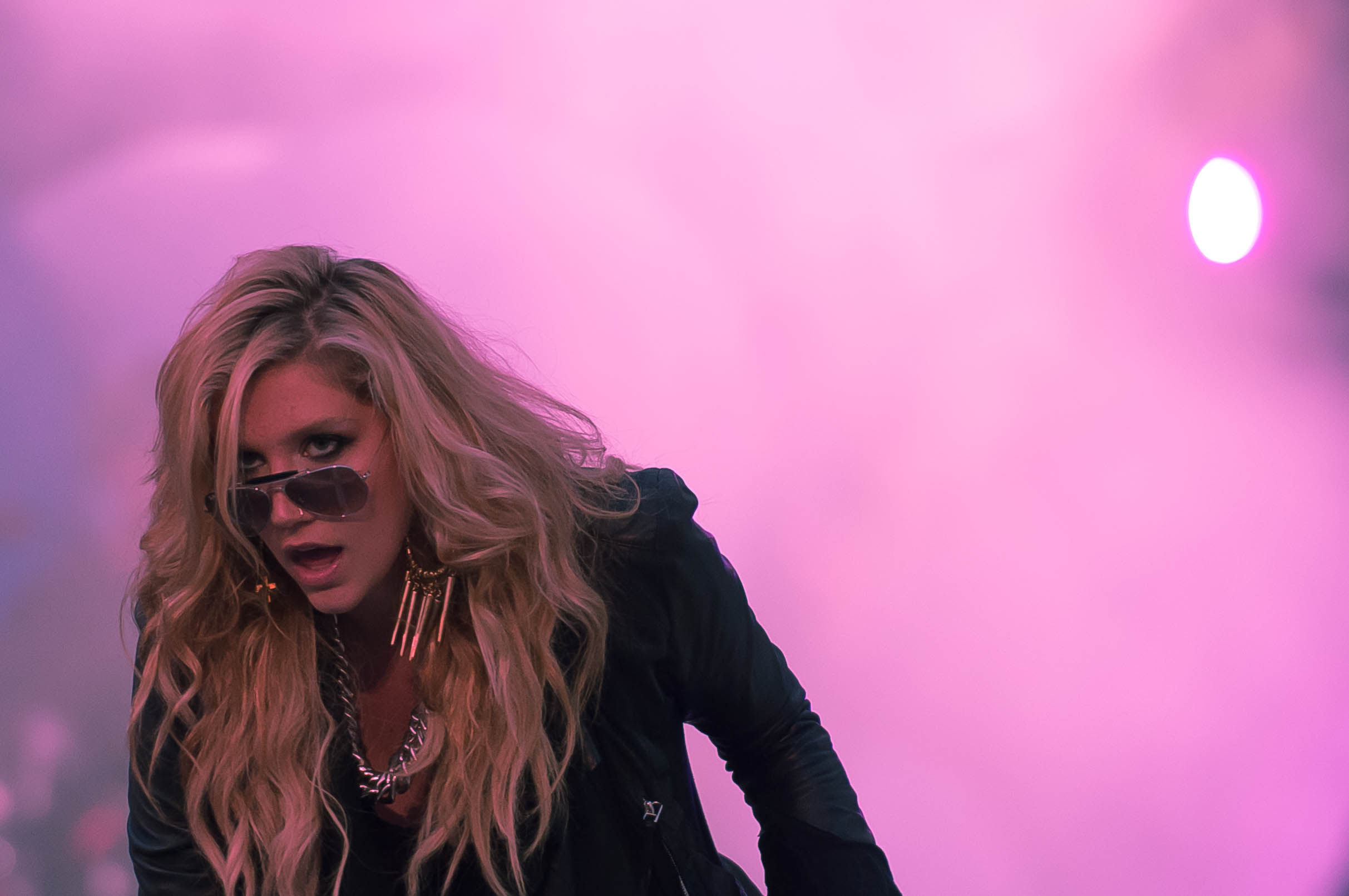 MuchMusic Video Awards soundcheck.